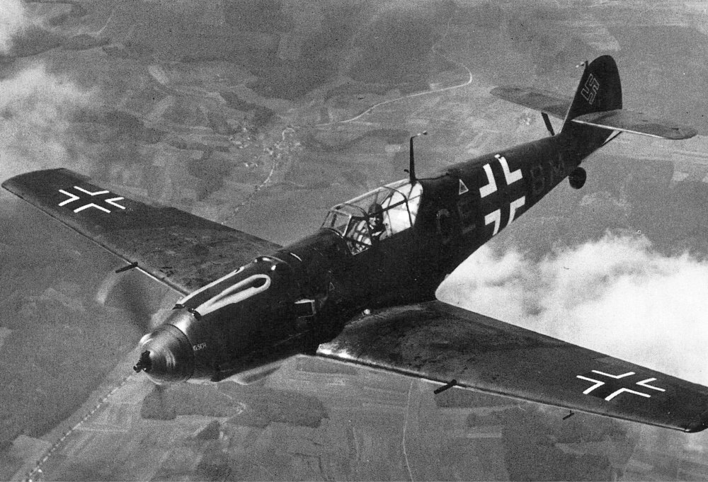 Messerschmitt Bf 109E-3 showing synchronised, propeller hub and wing guns